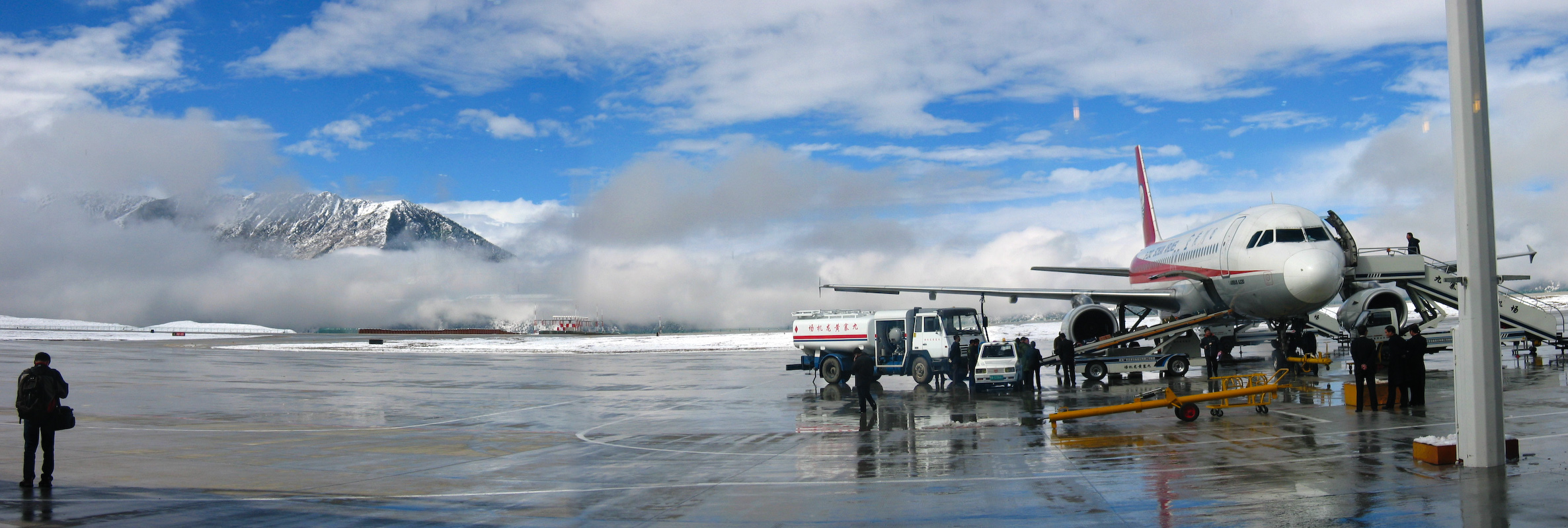 Jiuzhaigou Airport